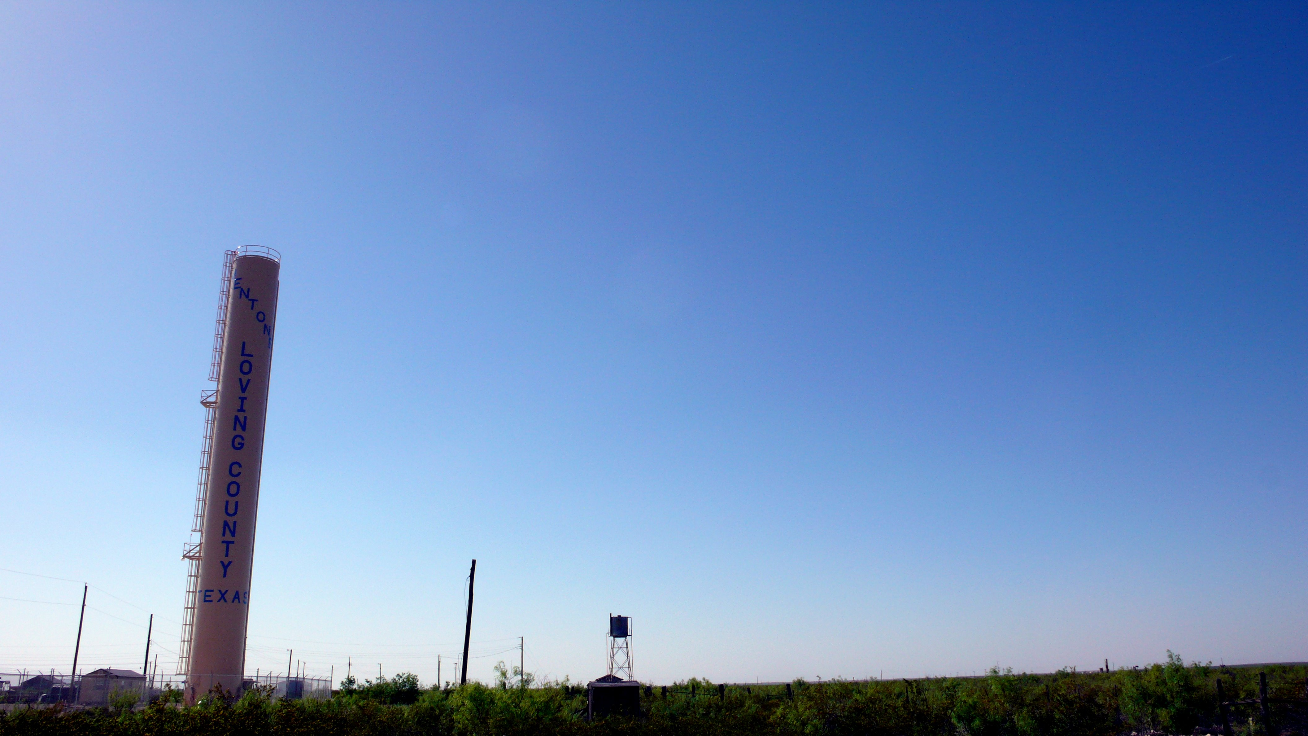 Watertower for 67 people